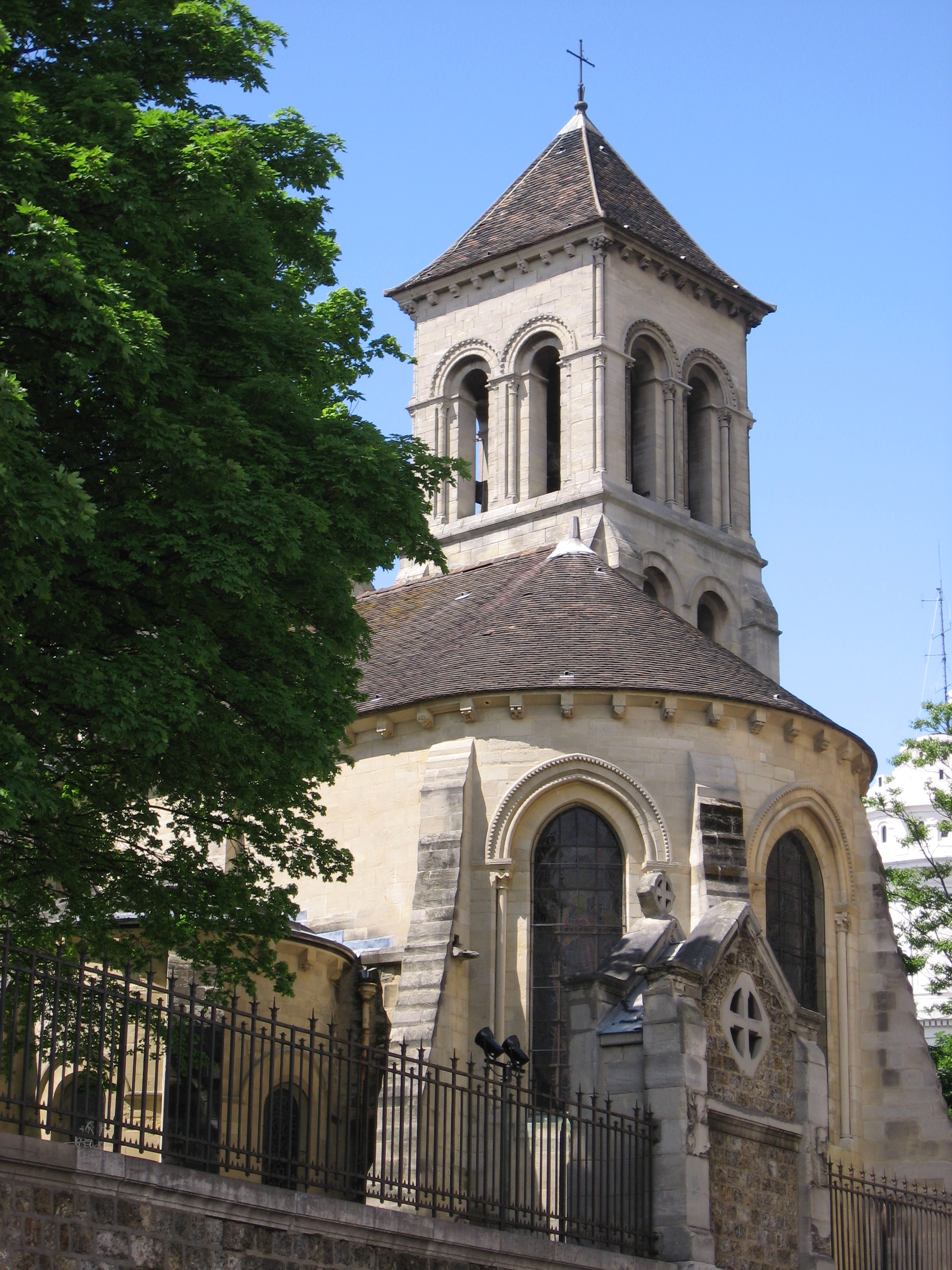 St Pierre de Montmartre, from the east